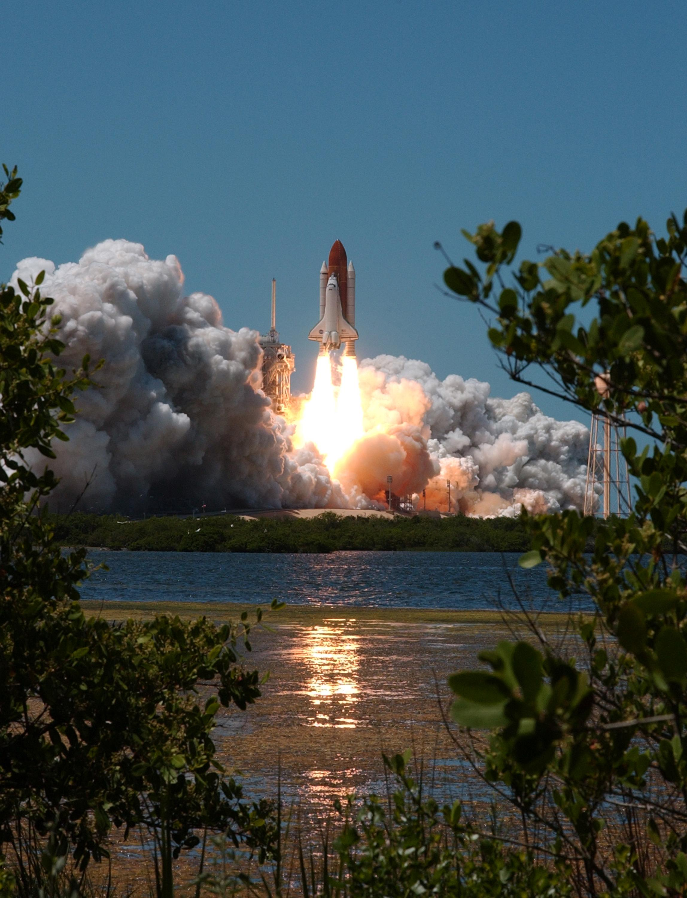 KENNEDY SPACE CENTER, FLA. – Space Shuttle Discovery kicks off the Fourth of July fireworks with its own fiery display as it rockets into the blue sky, spewing foam and smoke over the ground, on mission STS-121. It was the third launch attempt in four days; the others were scrubbed due to weather concerns. Liftoff was on-time at 2:38 p.m. EDT. During the 12-day mission, the STS-121 crew of seven will test new equipment and procedures to improve shuttle safety, as well as deliver supplies and make repairs to the International Space Station. Landing is scheduled for July 17 at Kennedy's Shuttle Landing Facility.